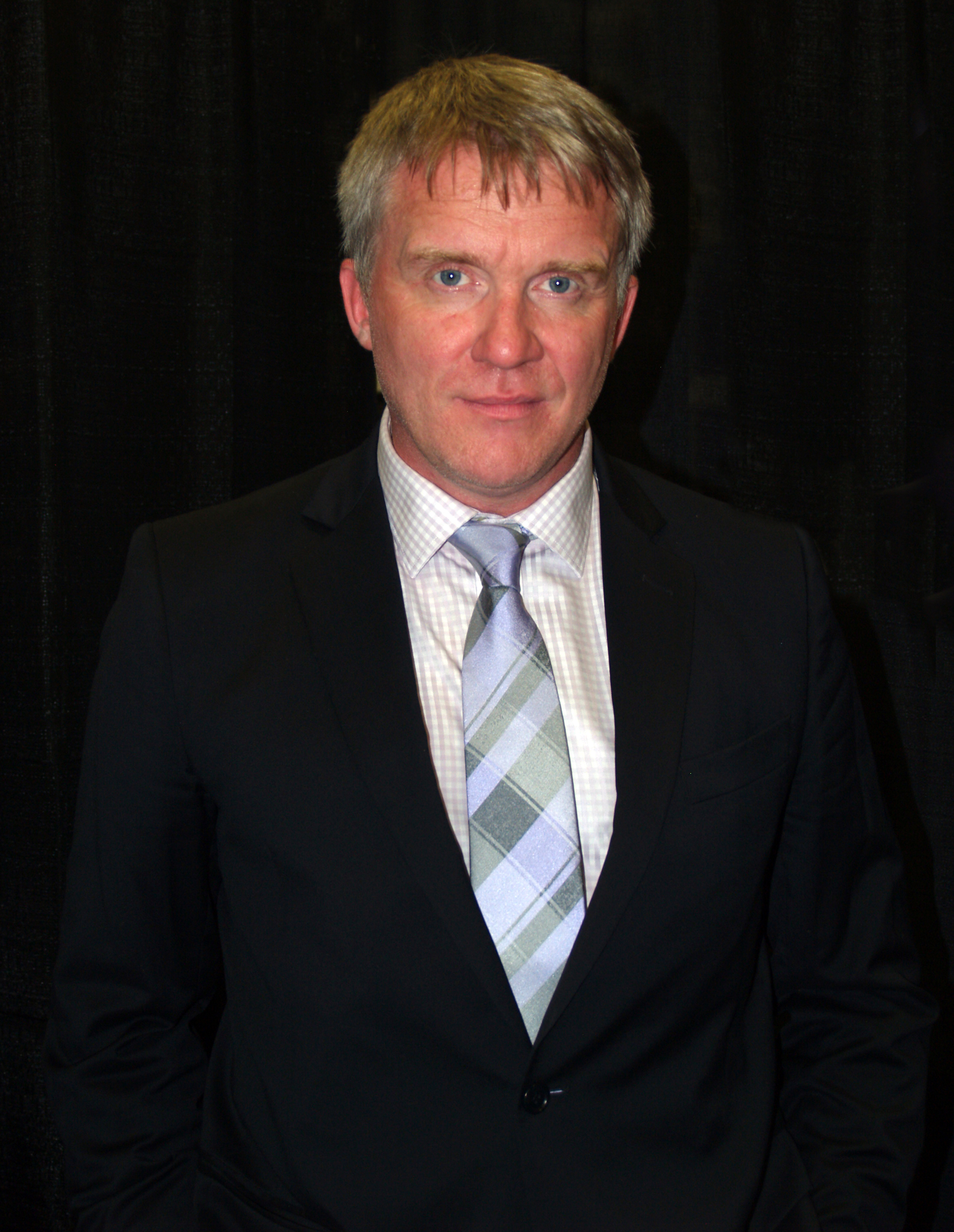 Actor Anthony Michael Hall at the 2013 Wizard World New York Experience at Pier 36 in Manhattan, June 28, 2013. This photo was created by Luigi Novi. It is not in the public domain, and use of this file outside of the licensing terms is a copyright violation.